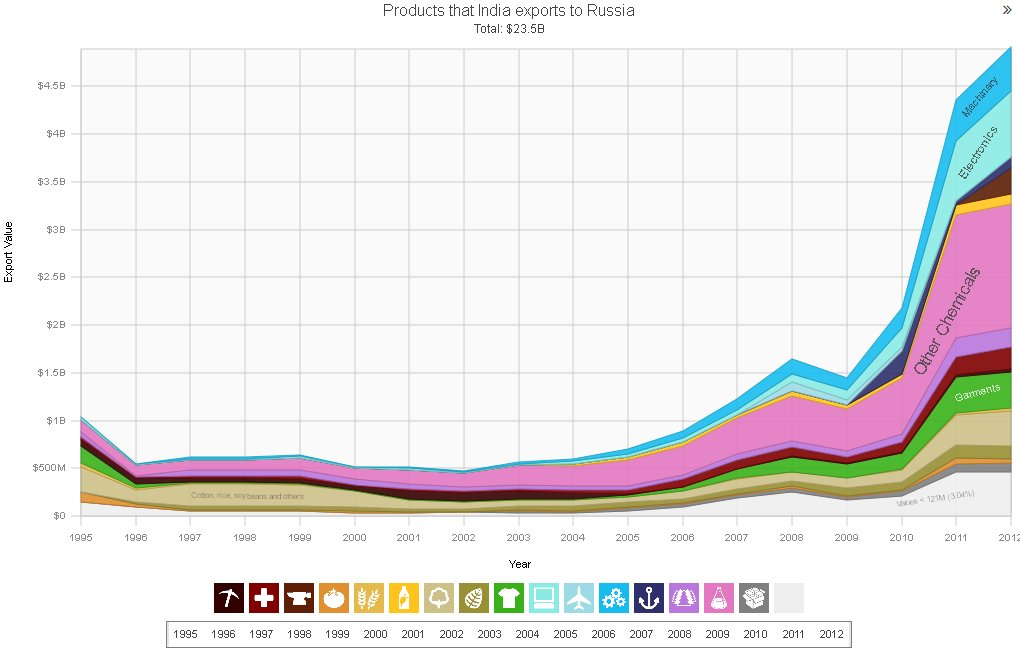 Indian exports to Russia - 1995 to 2012 from MIT Harvard Economic Complexity Observatory